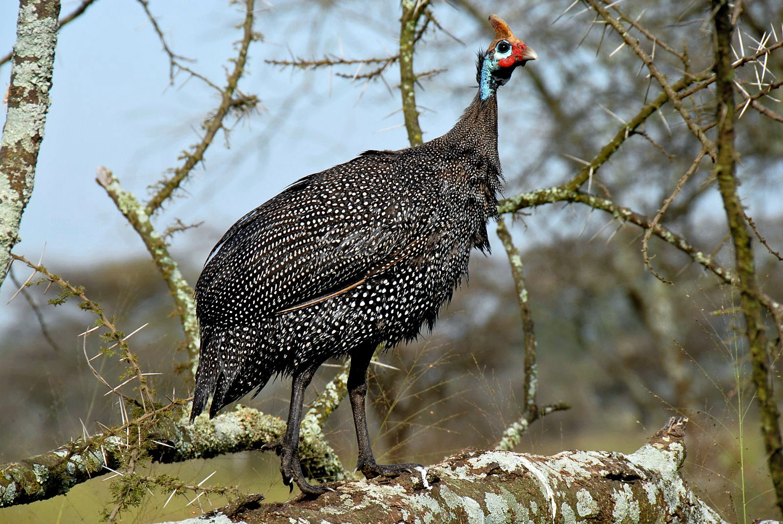 A Helmeted guineafowl at Serengeti National Park, Tanzania